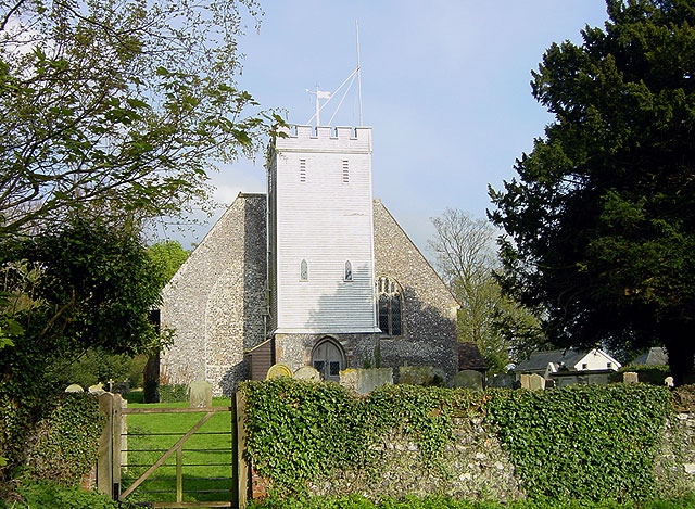 Church of the Beheading of John the Baptist, Doddington. Standing outside the main village, adjacent to Doddington Place this odd little 12th century church has a wooden tower erected in the early 19th Century, replacing the previous tower which was destroyed by fire in 1643.